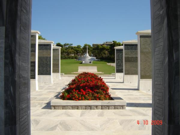 war cemetery, athens memorial=στρατιωτικό νεκροταφείο μνήμης 2ου παγκοσμίου πολέμου στην Αθήνα The Athens Memorial stands within Phaleron War Cemetery, which lies a few kilometres to the south-east of Athens, at the boundary between old Phaleron district and Kalamaki district, on the coast road from Athens to Vouliaghmen.